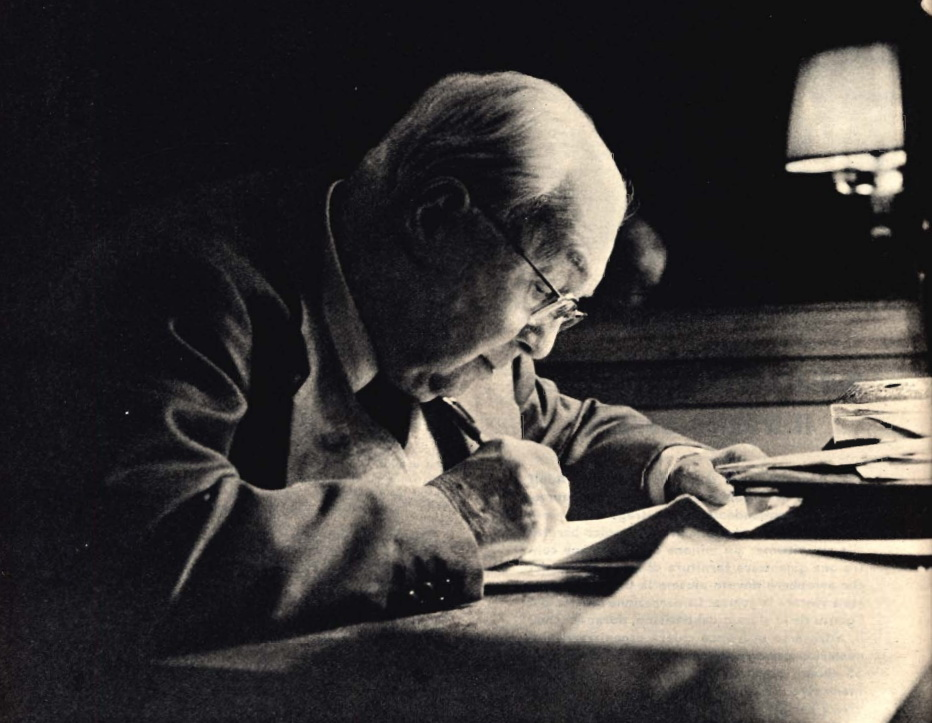 Italian jurist Francesco Carnelutti in his house in Udine